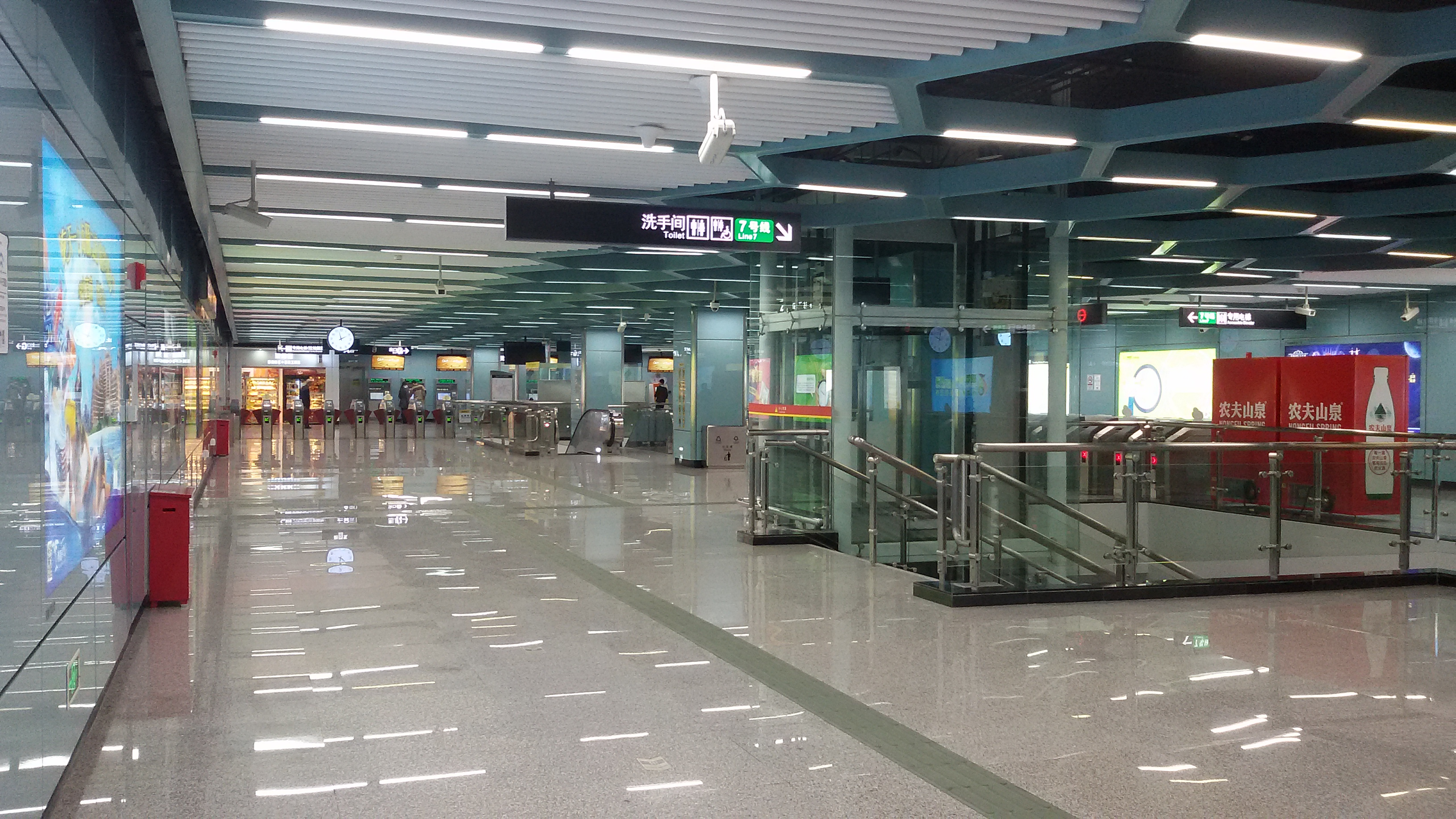 Station Concourse for Yuangang Station in Guangzhou Metro .